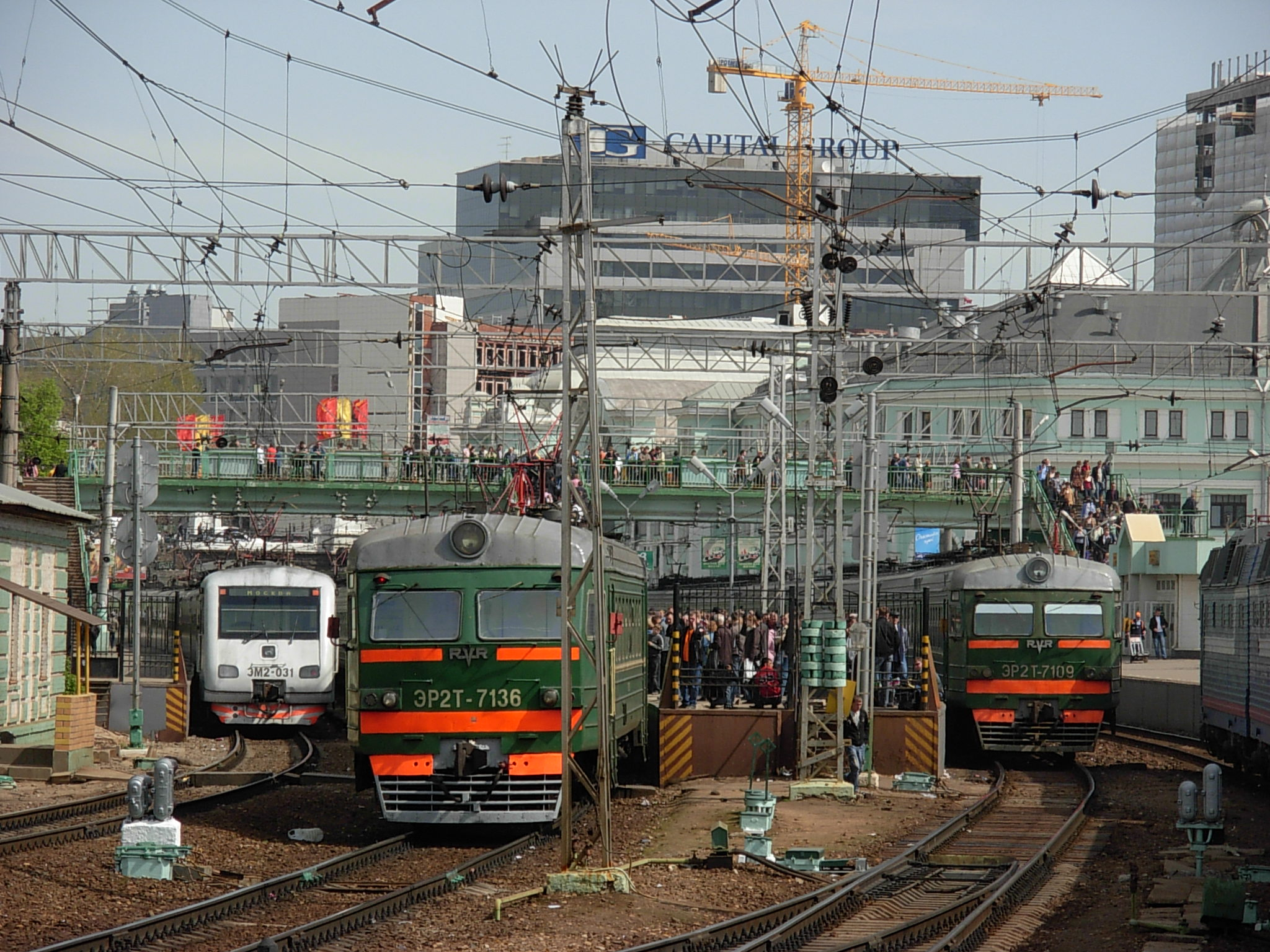 Beloruskiy Vokzal in Moscow, suburban-trains platform